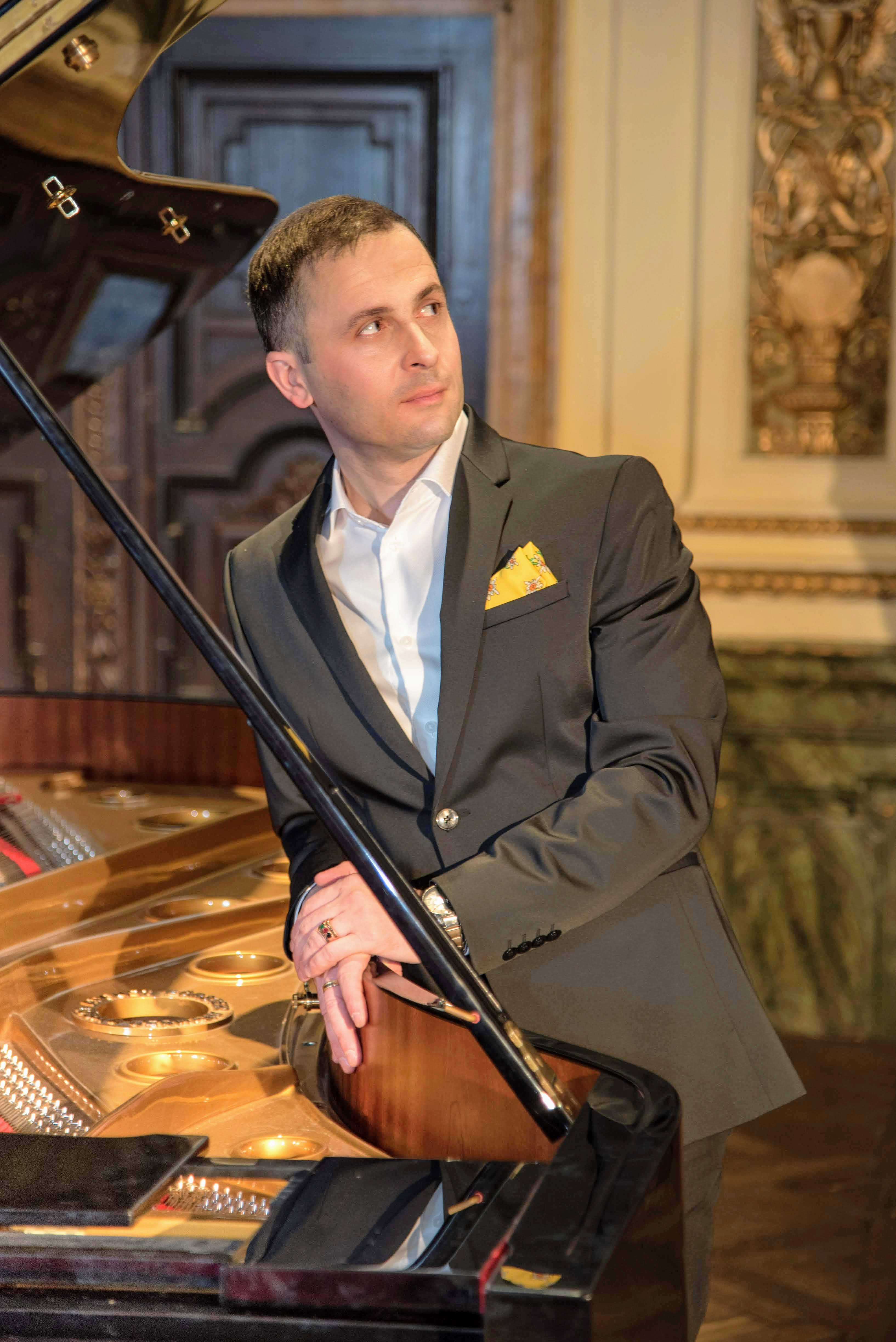 Concert pianist Giorgi Latso in Ehrbarsaal Concert Hall, Vienna 1019